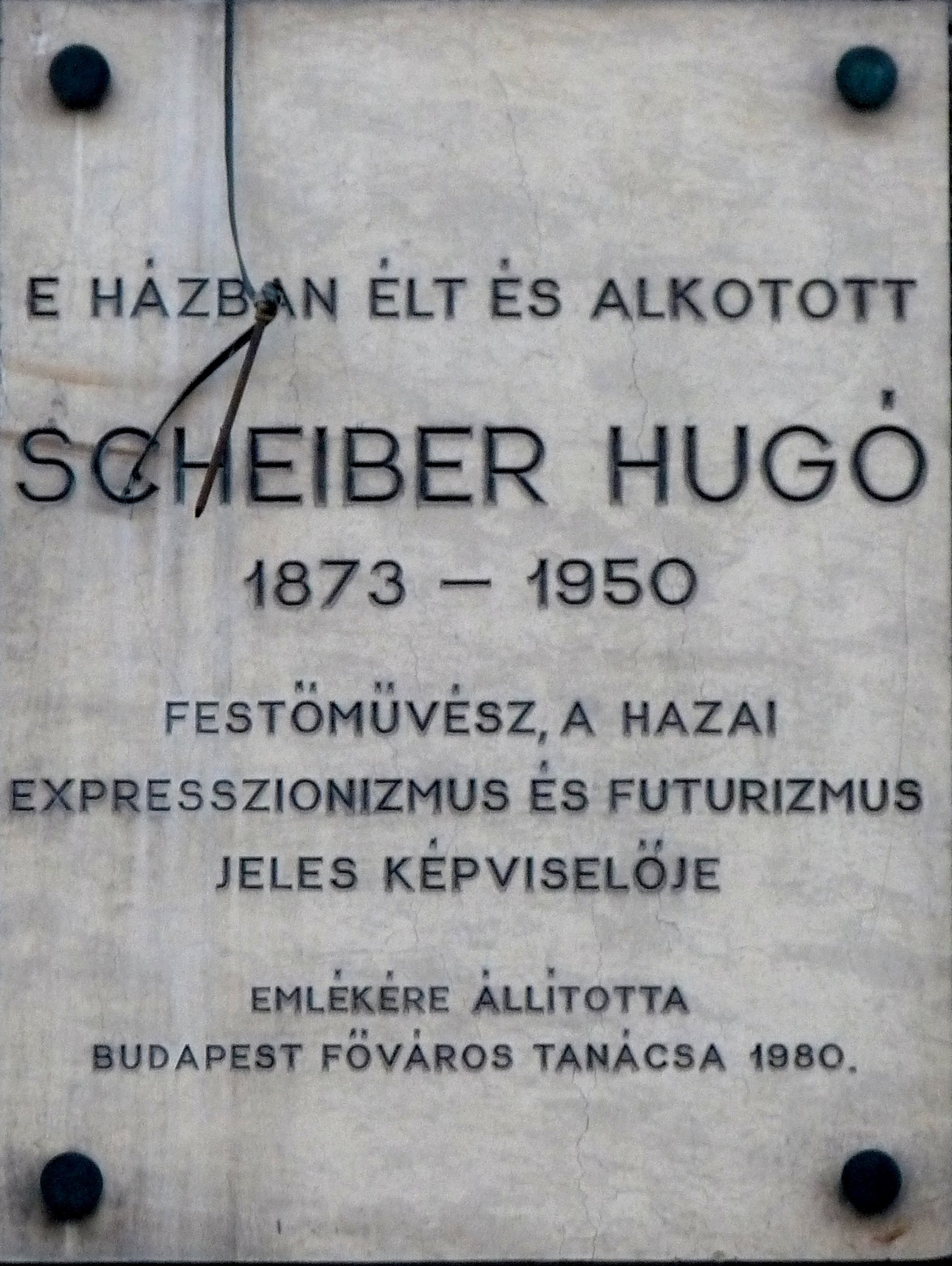 Hugó Scheiber commemorative plaque in Budapest District VII, Kertész Street No 22.